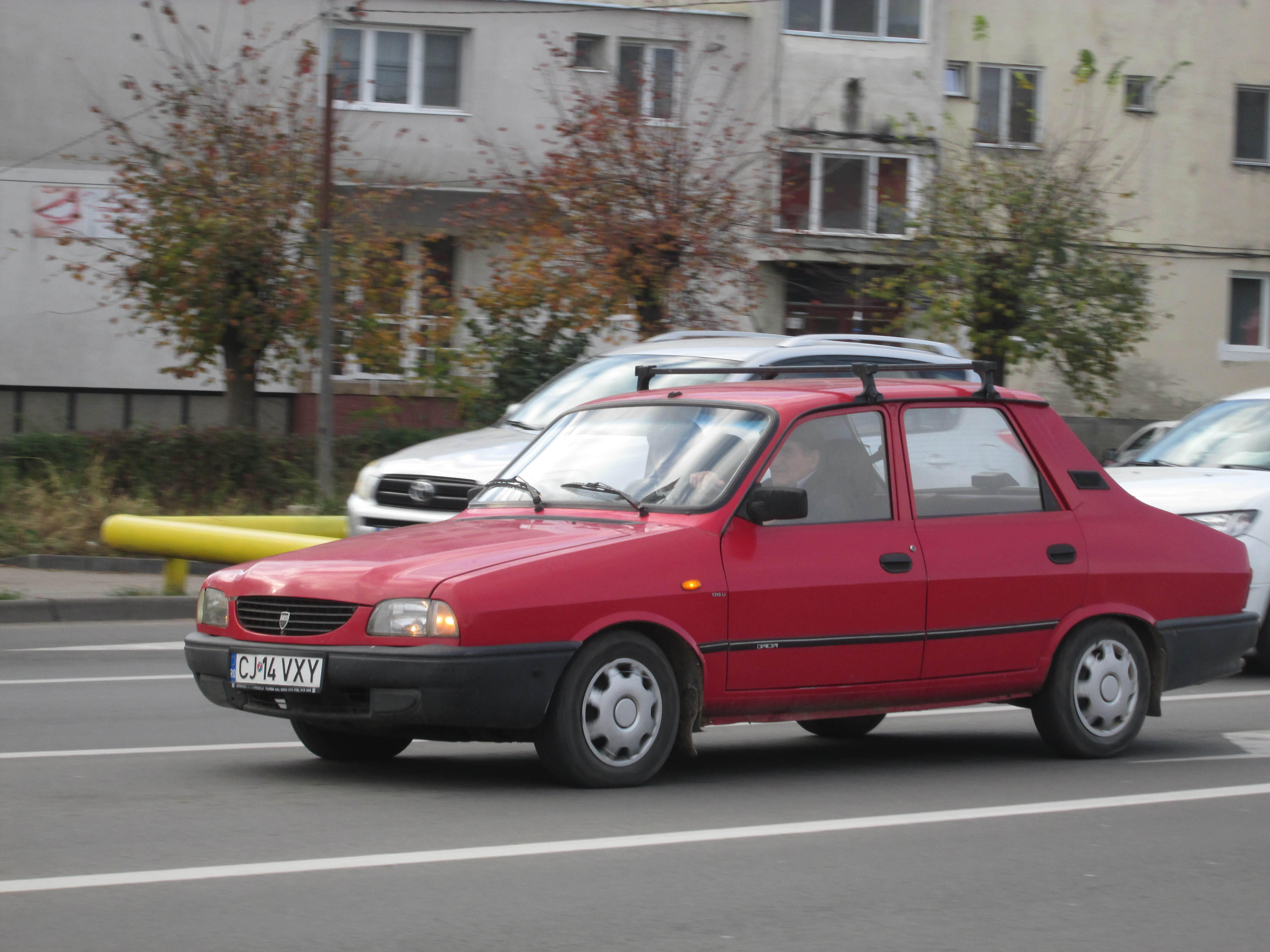 2002 Dacia 1310 near the Kaufland in Turda, Cluj county